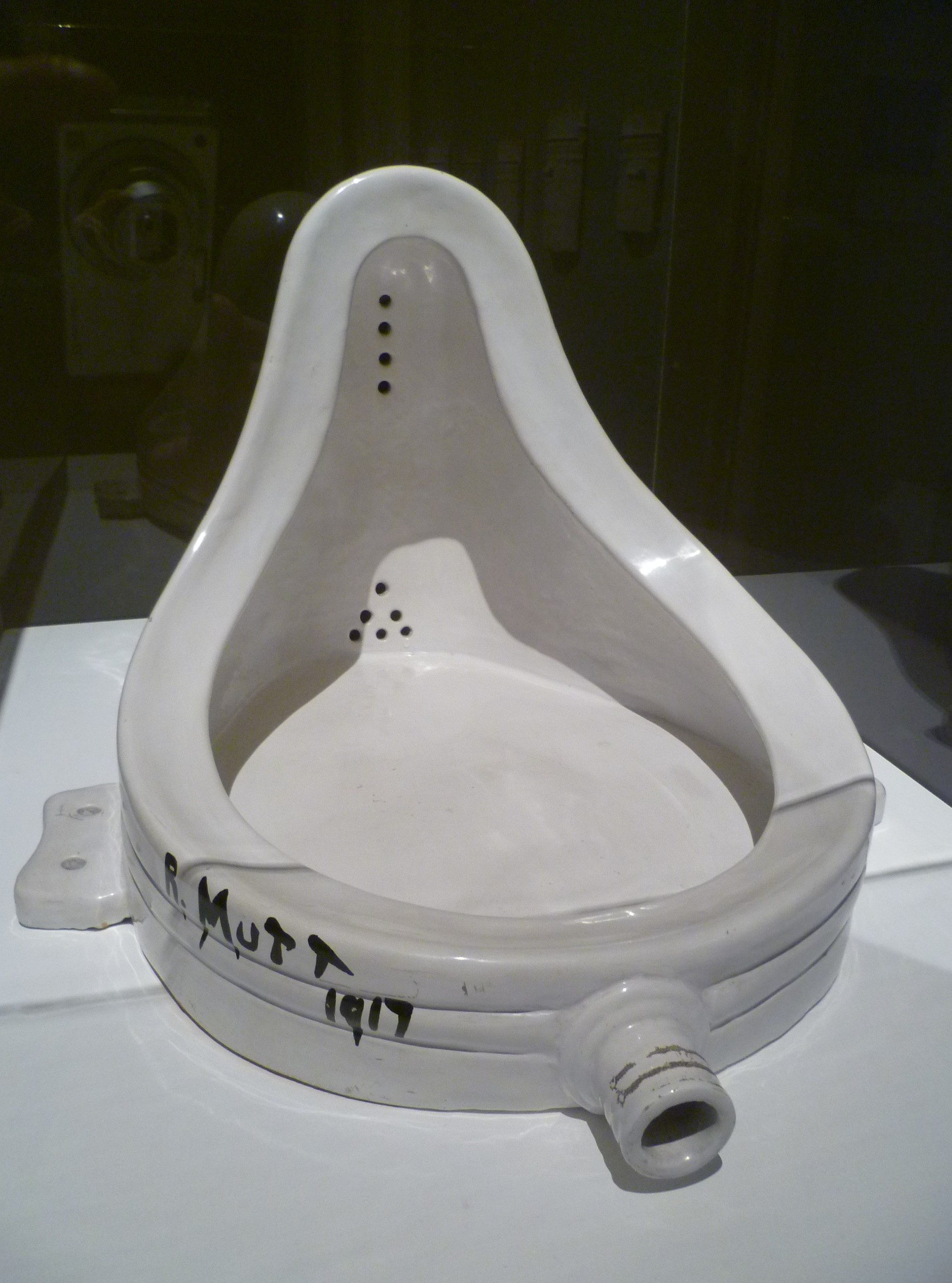 'Fountain' by Marcel Duchamp (replica), Scottish National Gallery of Modern Art, Edinburgh